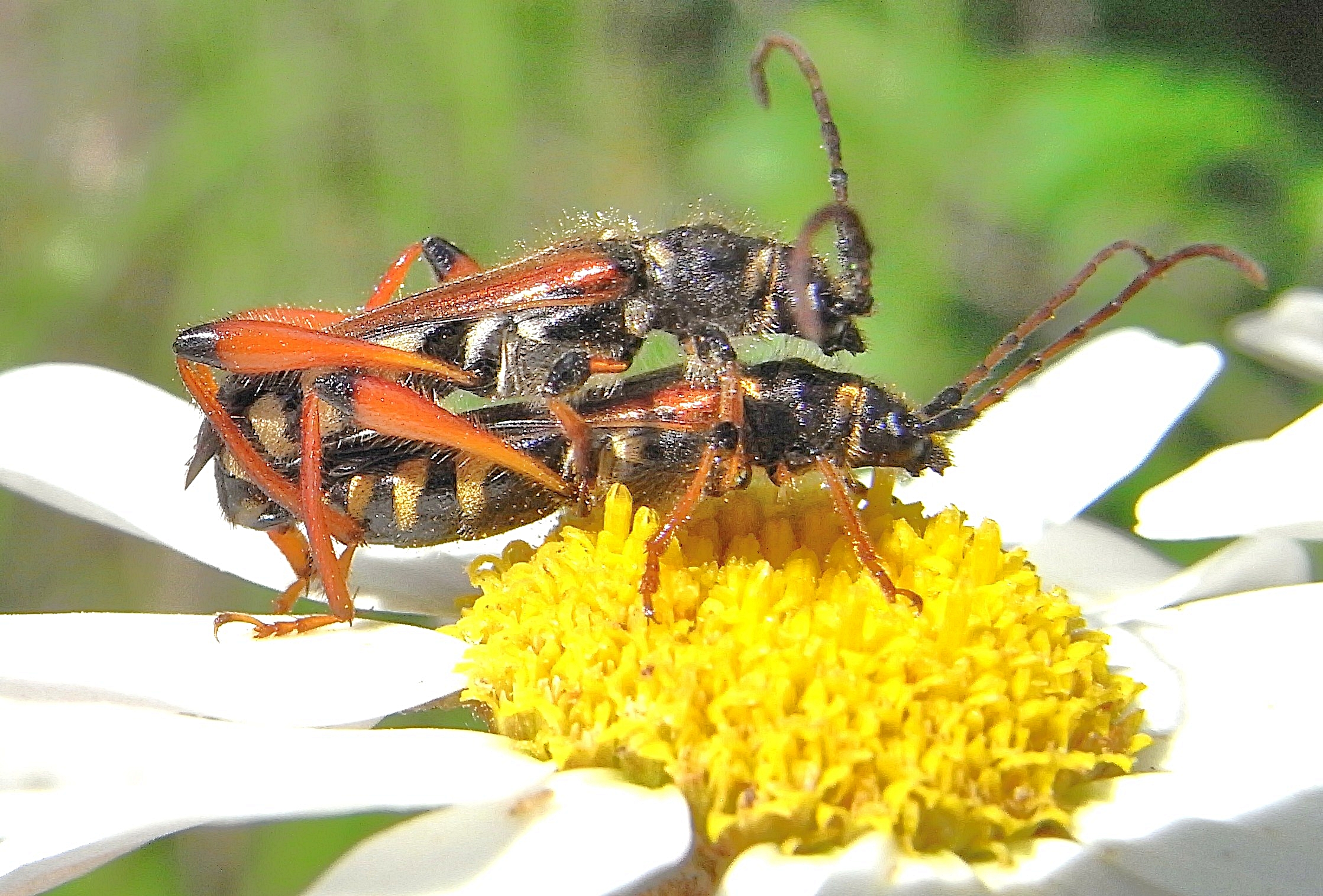 Stenopterus rufus from Hungary Ricoh R8